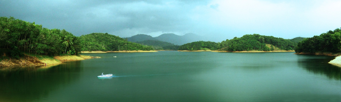 A view of the Neyyar Dam in Kerala